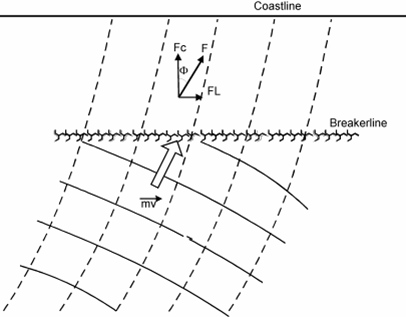 In this plan view waves come from bottom to top, on top is coastline, the waves approach the coast under an angle and have a momentum mv. At the coastline momentum has to be zero, so momentum has to be transferred into a force F. This force can be divided into a force parallel to the coast FL and a coast perpendicular to the coast Fc.